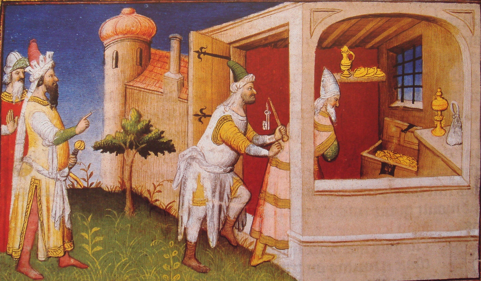 The Mongol ruler Hulagu in Baghdad interns the Caliph of Baghdad among his treasures.